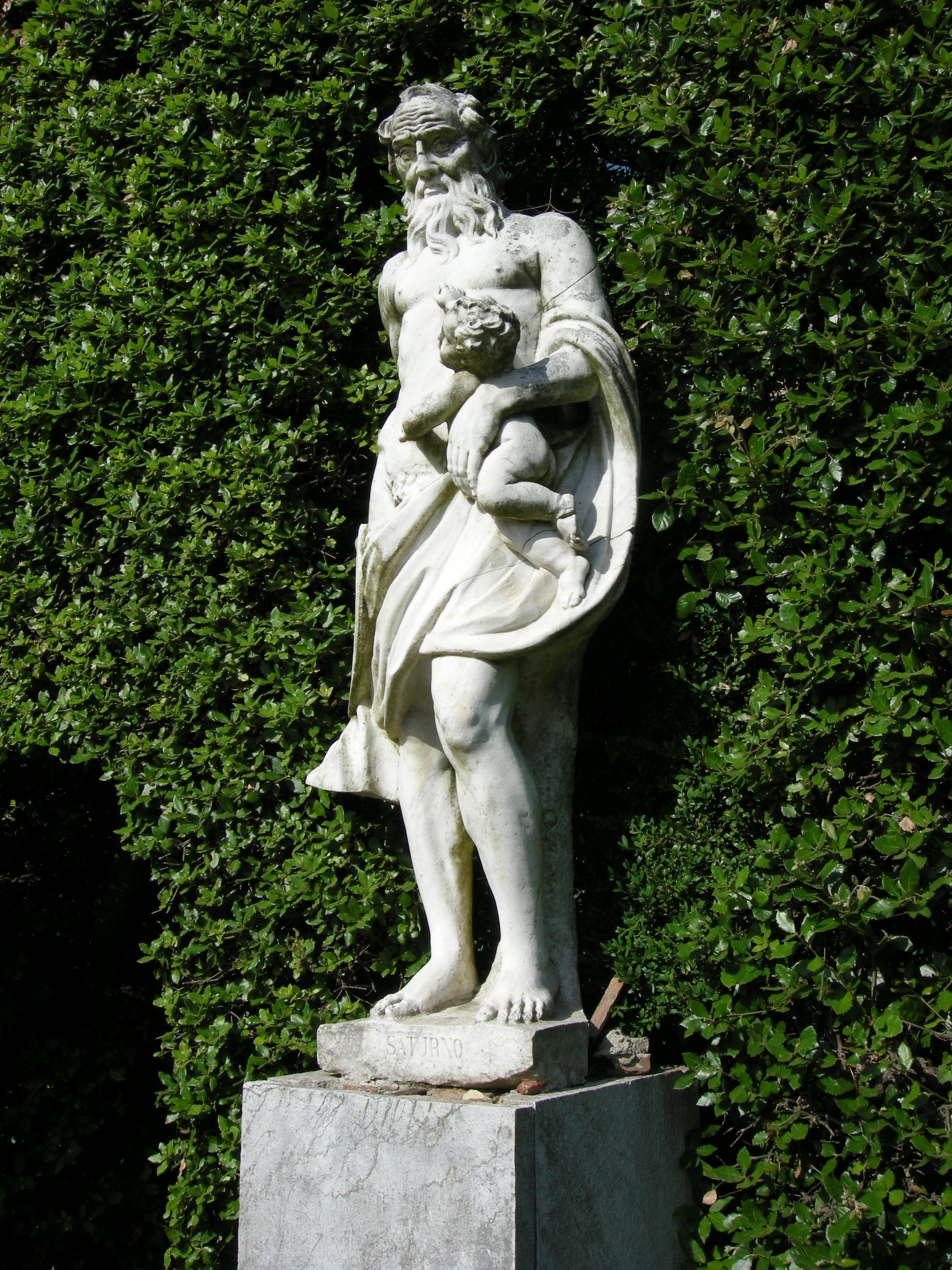 Statue of the Roman god Saturnus. In the Italian Renaissance gardens of Villa Reale di Marlia, Tuscany, Italy.